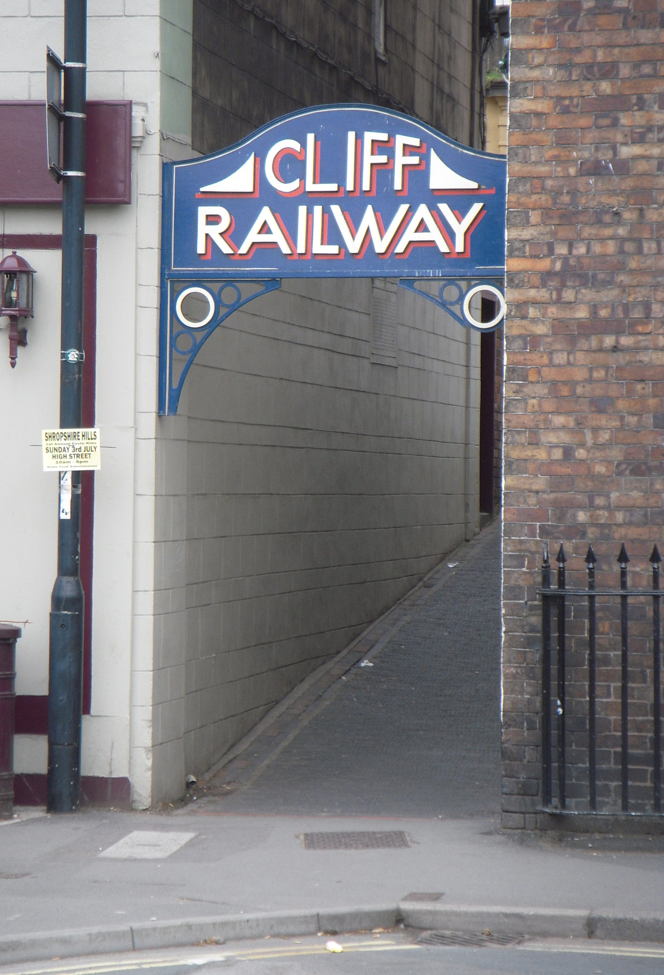 The entrance to the bottom station. July 13, 2011.